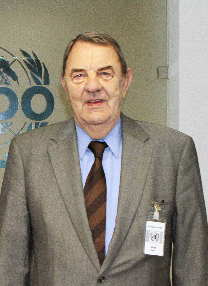 From left: Mouddar Khouja, Secretary General, Austro-Arab Chamber of Commerce, and Richard Schenz, President, Austro-Arab Chamber of Commerce, Vienna, 9 January 2014.